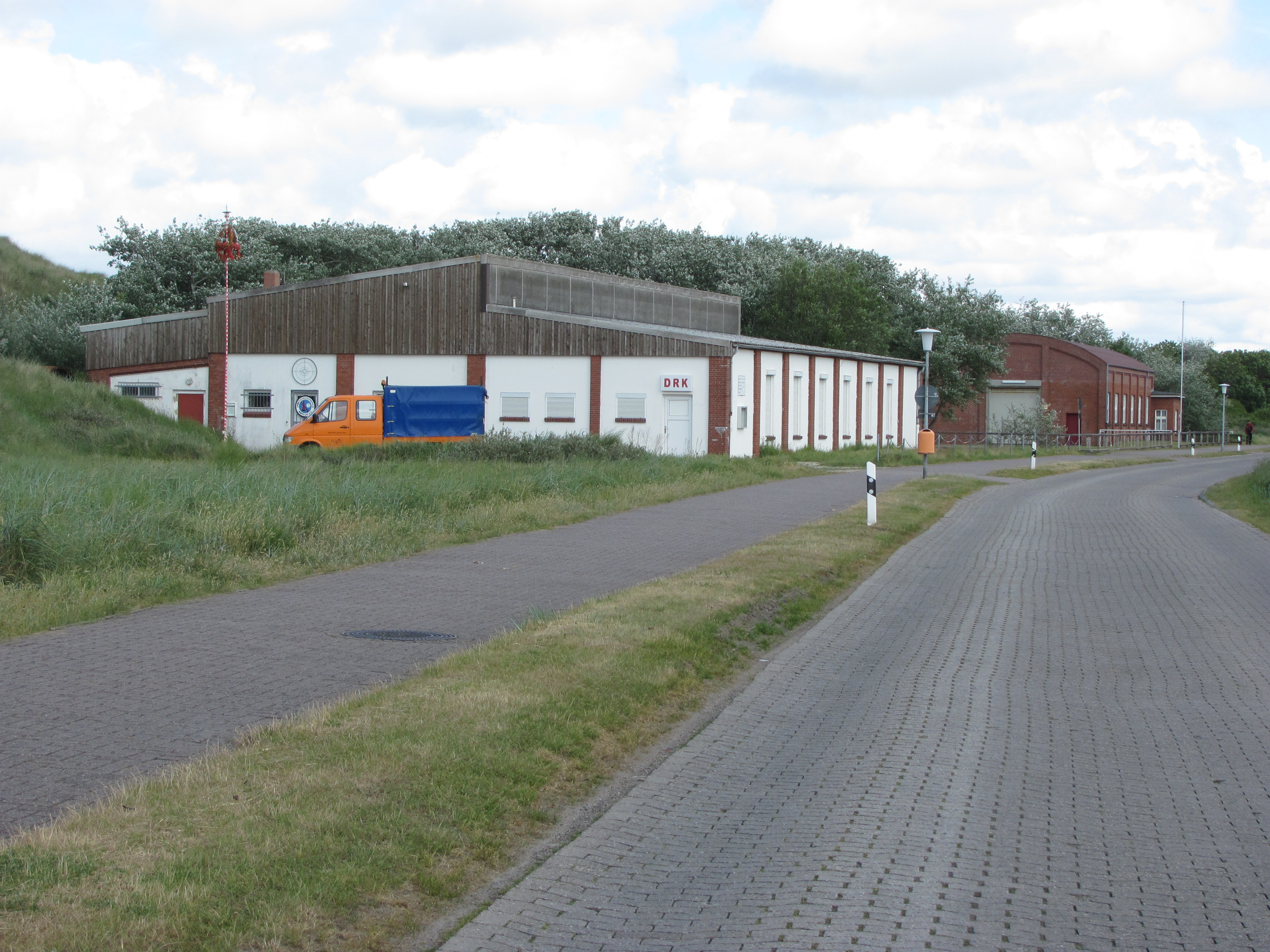 Remains of the former repair shops of military Ostlandbahn, Borkum